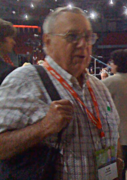 Allan Blakeney at the 2009 NDP Convention.